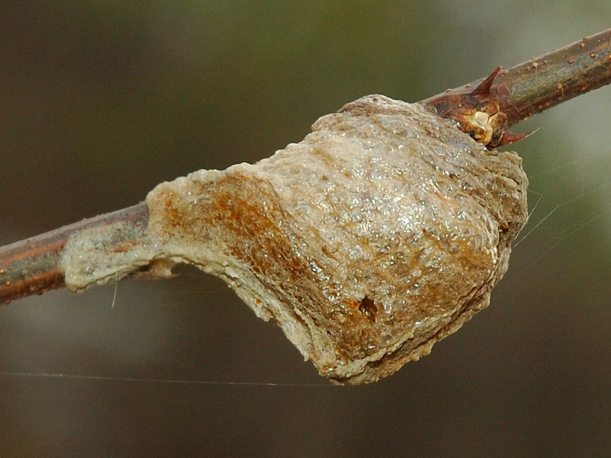 Tenodera aridifolia Ootheca, an egg case. Photo taken in Japan.